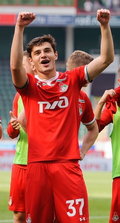 Stanislav Magkeyev with FC Lokomotiv Moscow after a game against FC Ufa.